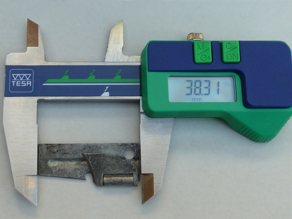 P-38 can opener shown in jaws of digital calipers, millimeter display.